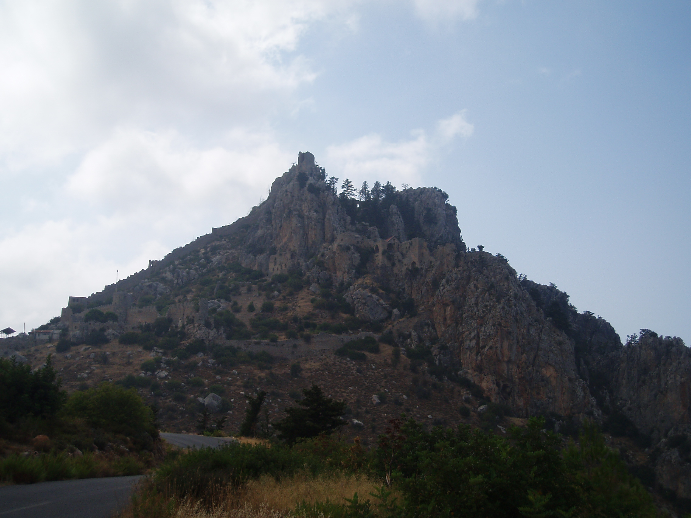 St Hilarion Castle, Kyrenia, North Cyprus